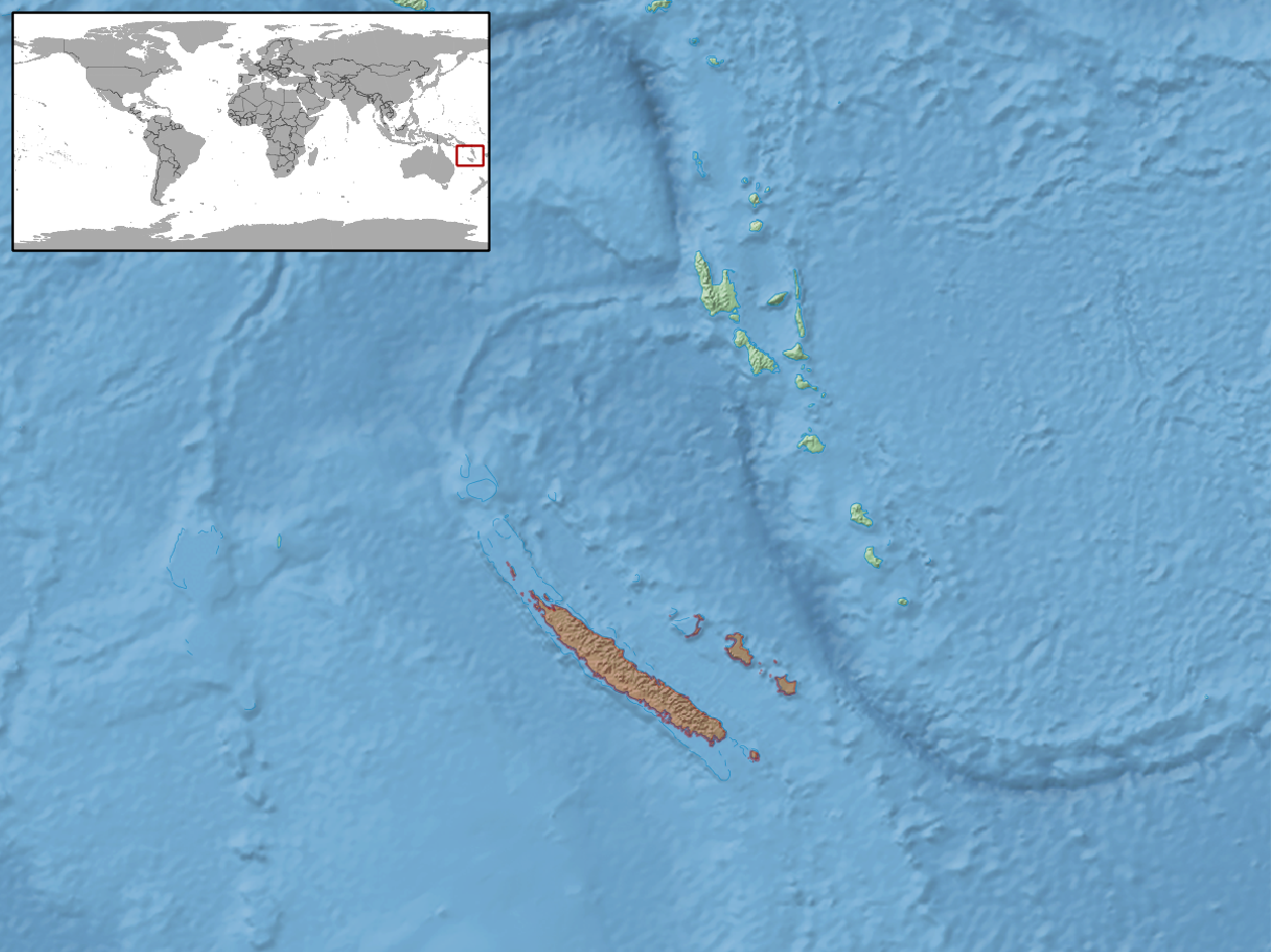 geographic distribution of Caledoniscincus haplorhinus